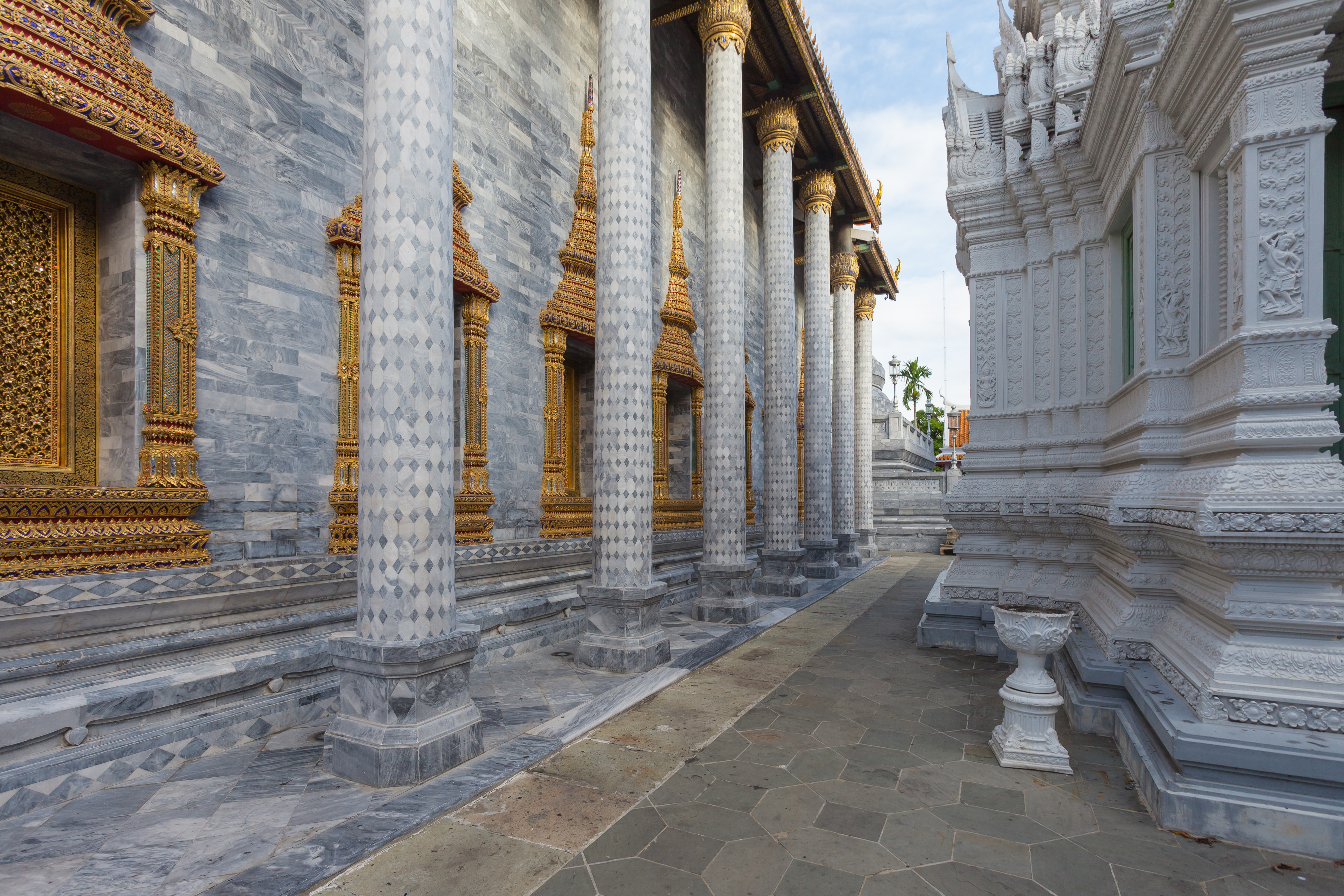 The Columns of Ubosot or Phra Wihan of Wat Ratchapradit, Bangkok.